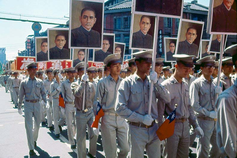 1965 Double Ten Day Parade in Taipei, Taiwan